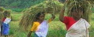 vayal koyith